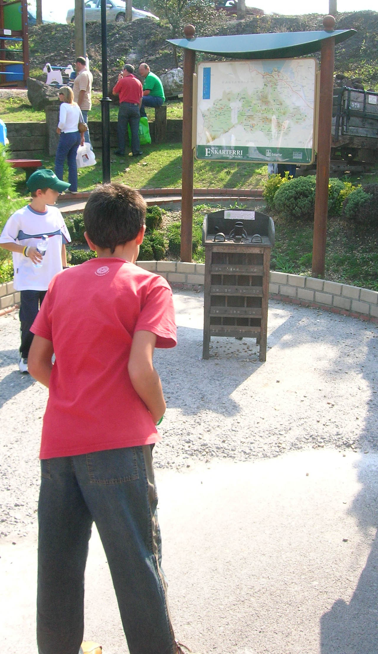 Juego de la rana en el Museo de la Minería de Gallarta, Vizcaya, España.